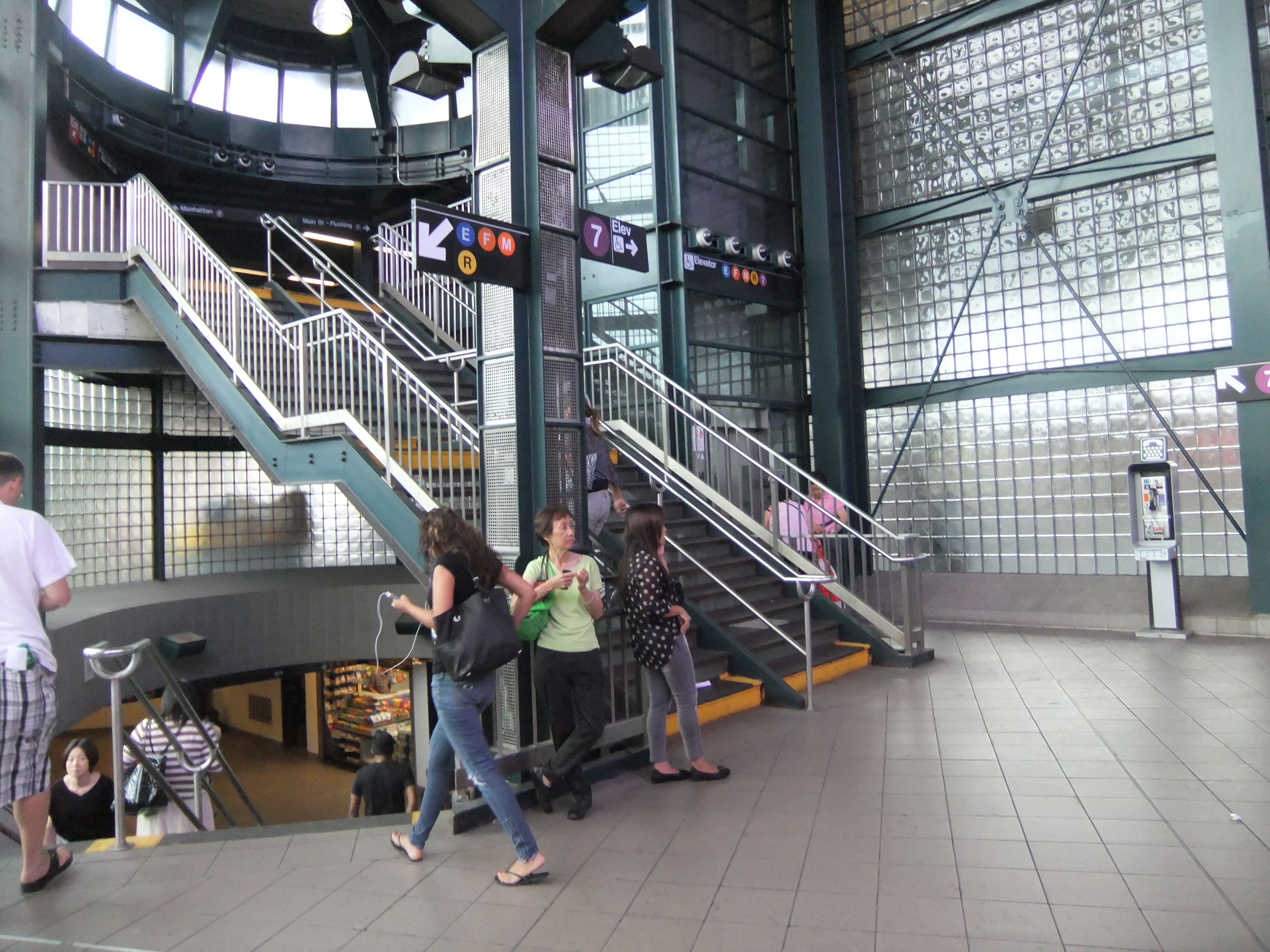 Staircase to IRT Flushing line at Jackson Heights - Roosevelt Avenue